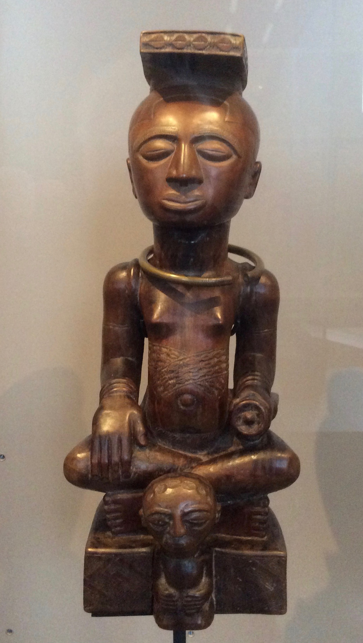 Ndop, Central African Museum, Brussels: King Miko miMbul